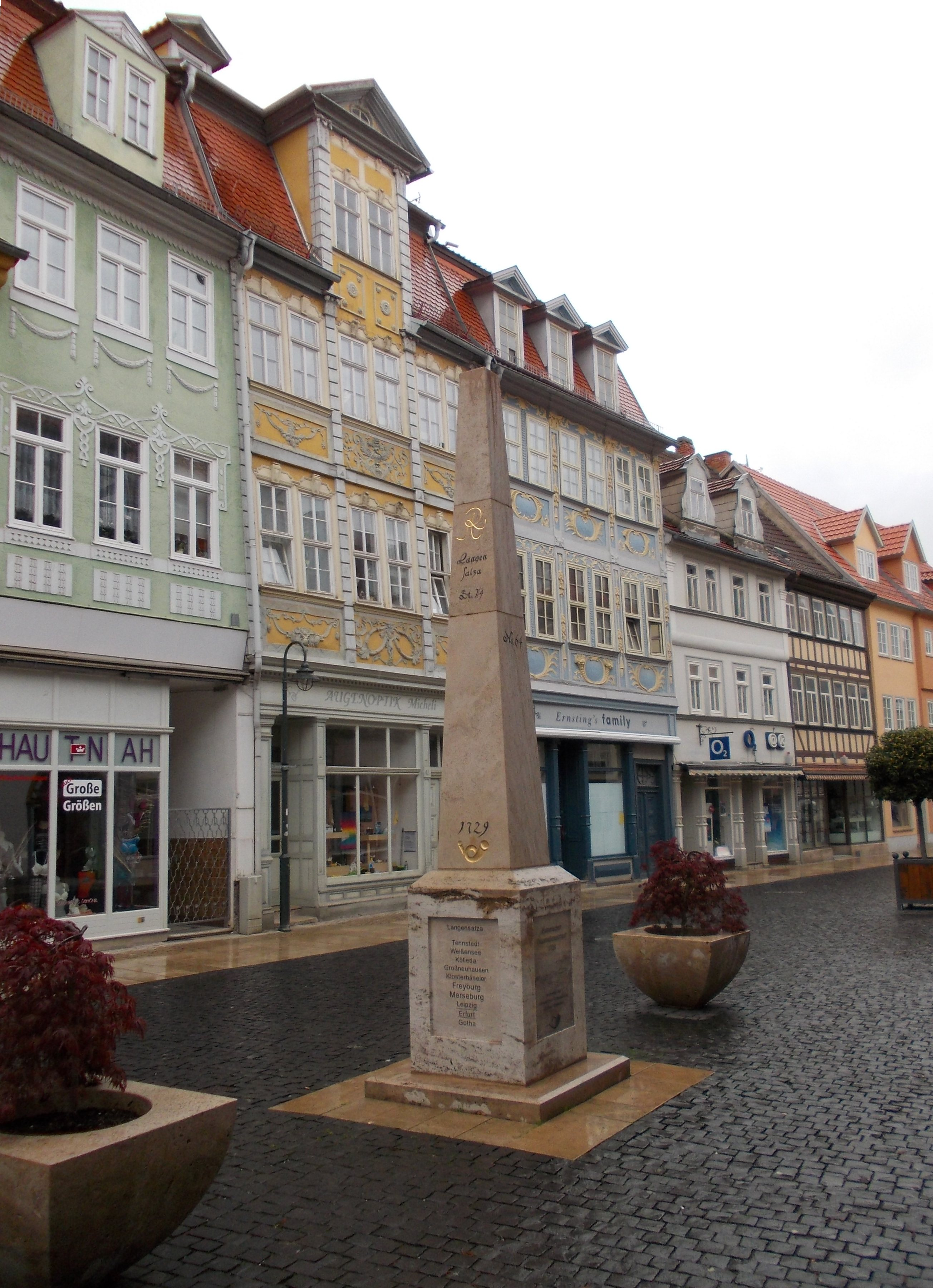 Replica of a post milestone in Bad Langensalza (Unstrut-Hainich-Kreis, Thuringia)